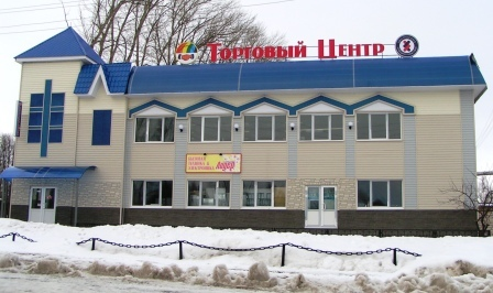 Shopping centre in Alokovo, Chuvashia, Russia